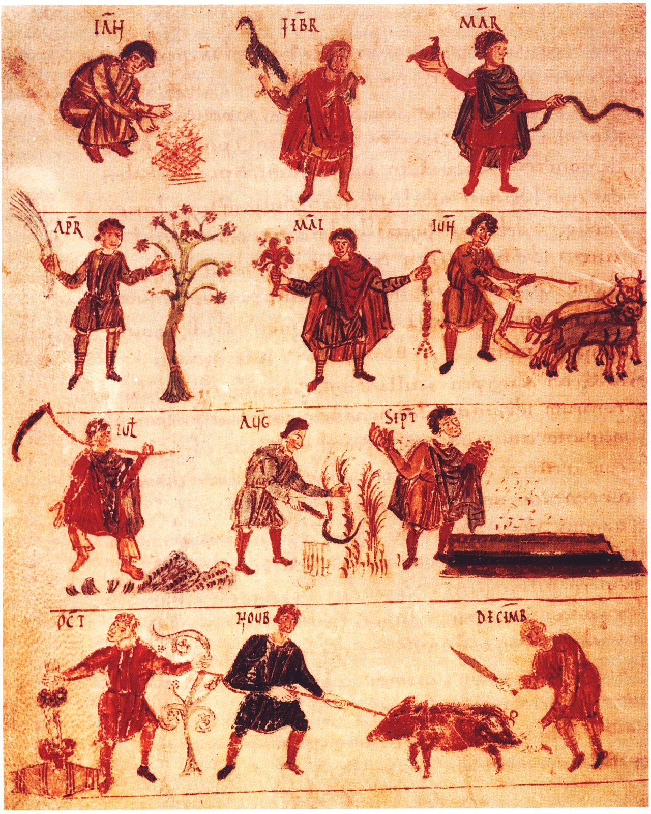 Labors of the month, Salzburger Hs.